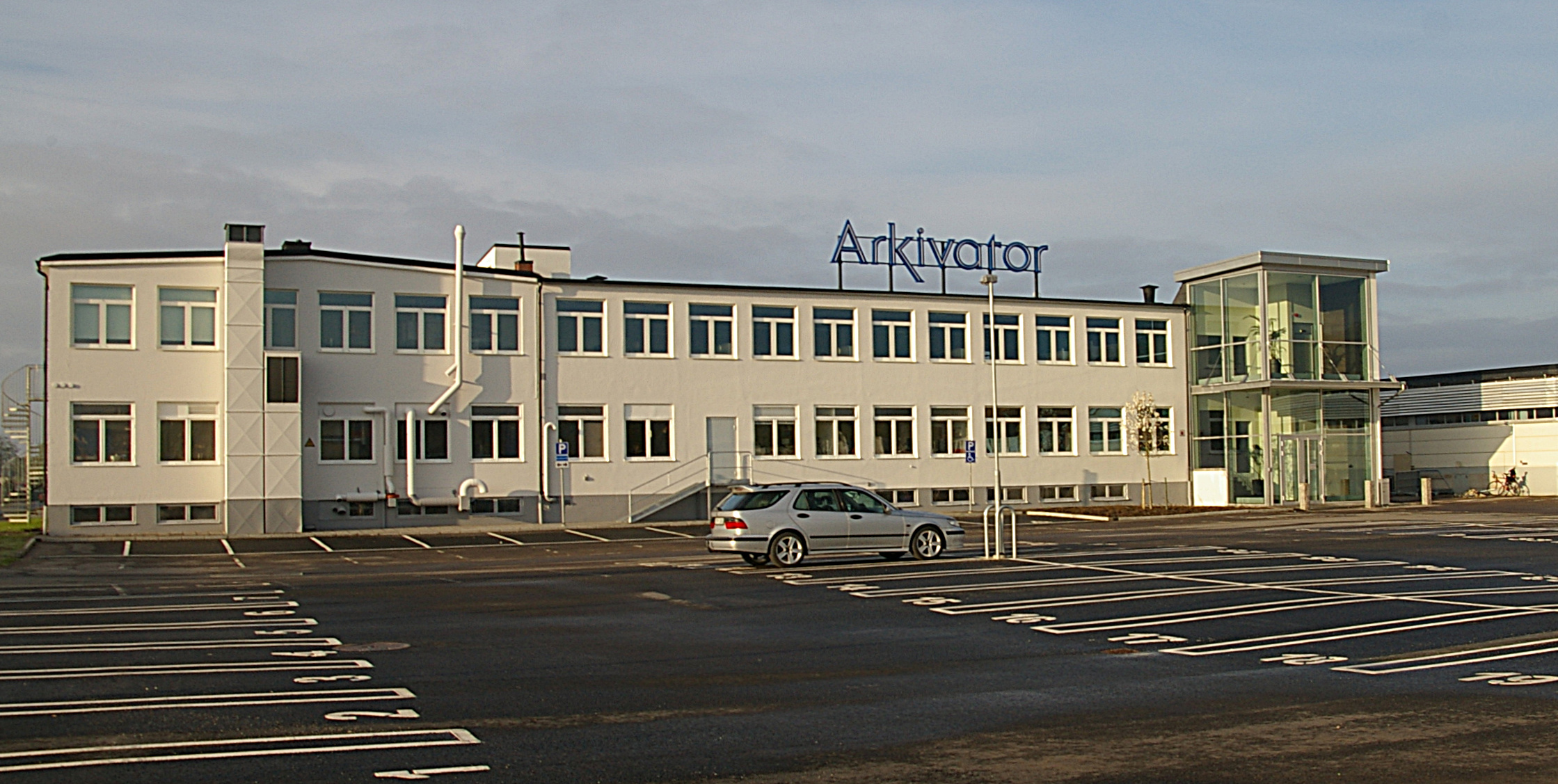 Arkivator, a subcontractor in Falköping, former Skaraborg county, Västergötland, Västra Götaland county, Sweden.